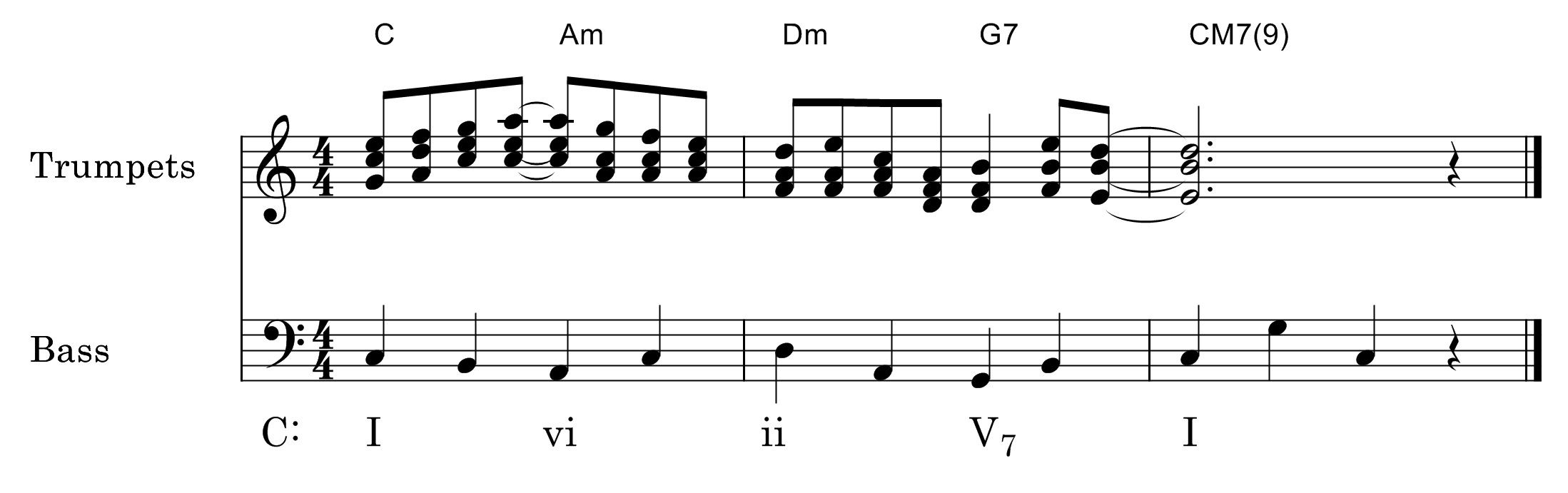 3 voice sectional harmony voiced not in parallel sixths. Each voice is distributed based on each chord more exactly, but the movement as a section gets not smoother.